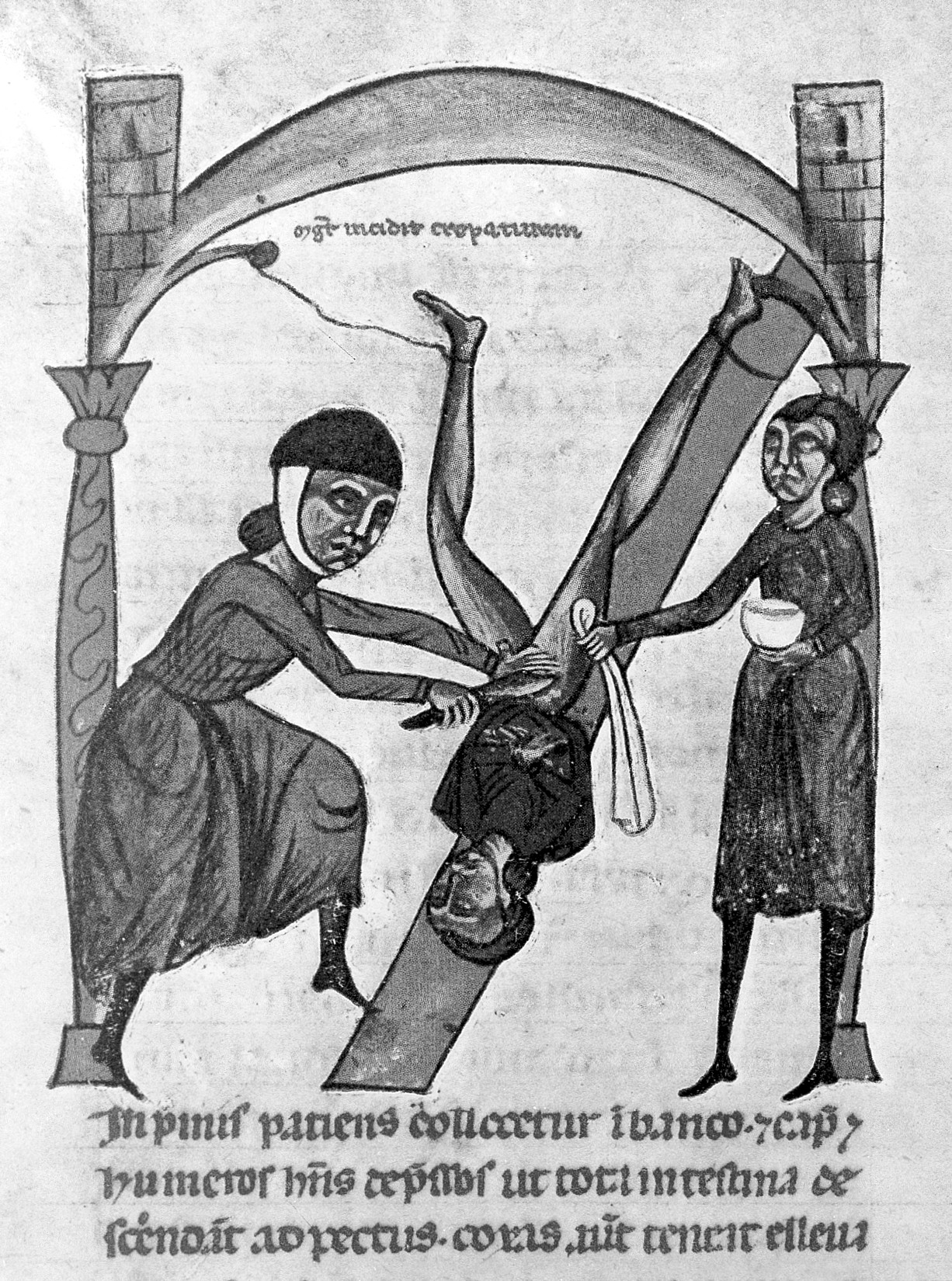 Surgeon operating for scrotal hernia. Rolandus Parmensis, Chirurgia, Rome: Biblioteca casanatense MS 1382, fol. 24v. Cf. L. MacKinney, Medical Miniatures pp 78-9 N.b. Slide is from MacKinney, op. cit. figure 81b General Collections Keywords: Surgery